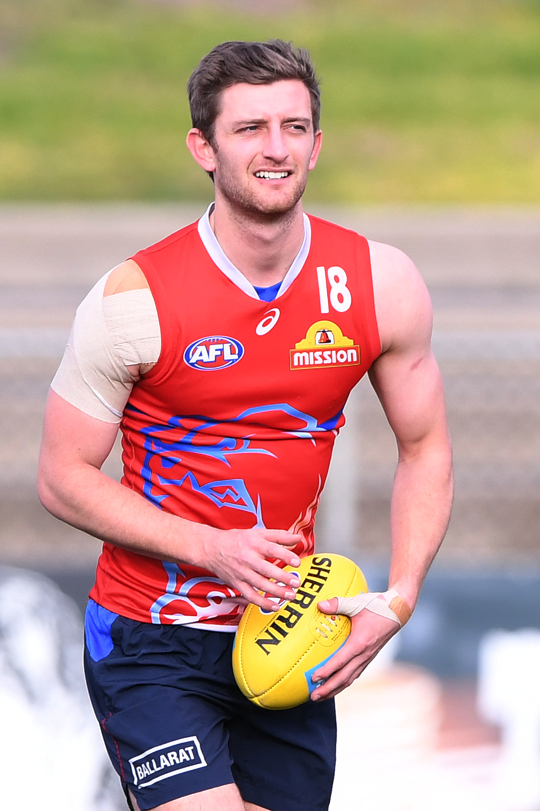 Fletcher Roberts of the Western Bulldogs during Western Bulldogs training on 7 August 2018 at Whitten Oval in Melbourne, Victoria.